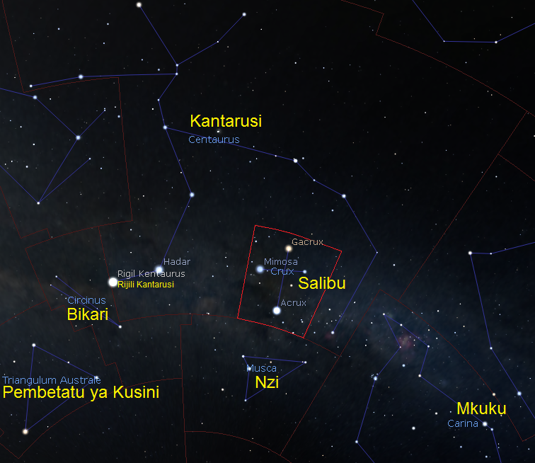 Constellation Crux as seen from Tanzania, Swahili labelled Kiswahili: Kundinyota Salibu (Crux) jinsi inavyoonekana kutoka Tanzania, majina kwa Kiswahili